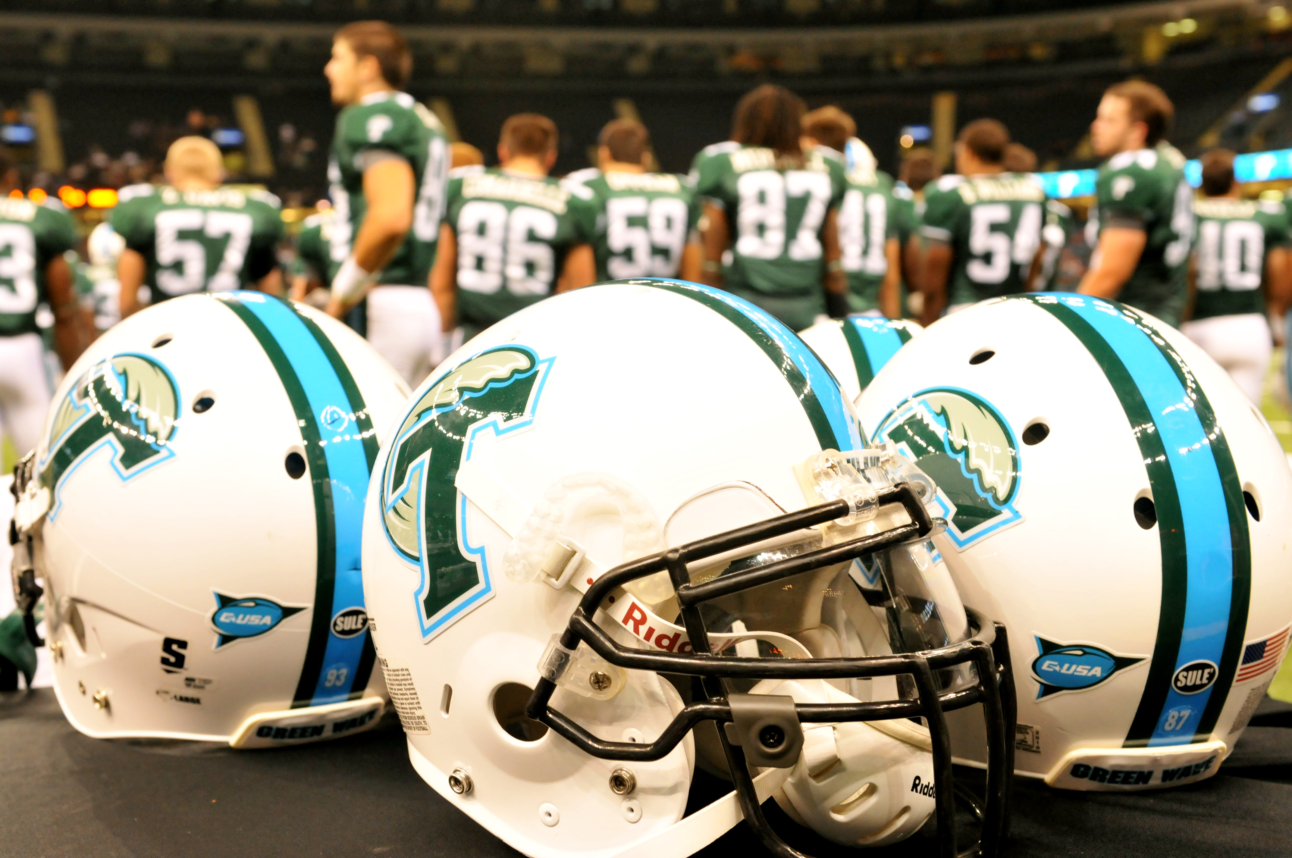 2010 Homecoming